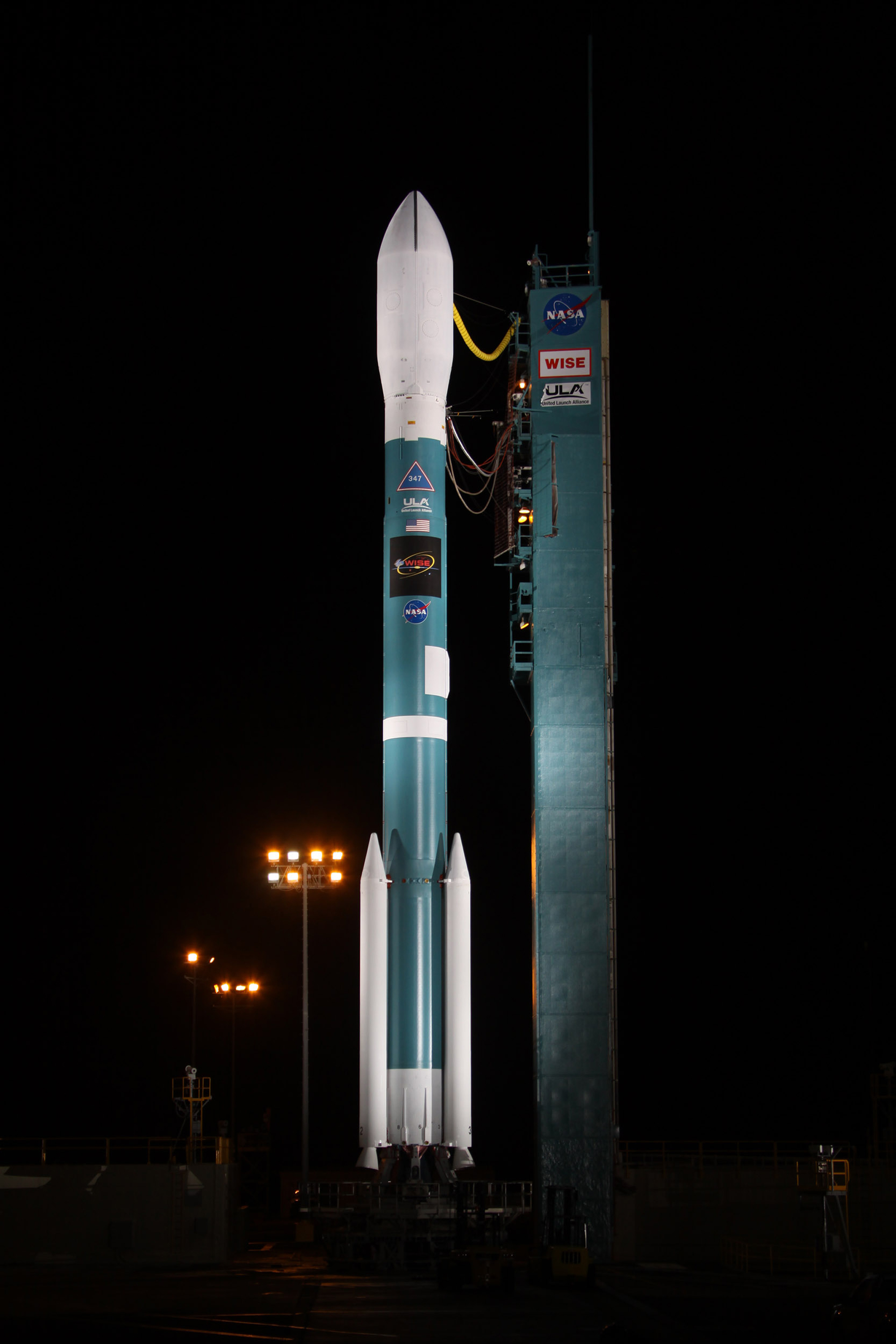 A United Launch Alliance Delta II (Delta 347) rocket with NASA’s Wide-field Infrared Survey Explorer, or WISE, satellite sits poised for launch at Space Launch Complex-2 at Vandenberg Air Force Base in California. The Delta II is set for liftoff at 6:09 a.m. PST Dec. 14. WISE will scan the entire sky in infrared light, picking up the glow of hundreds of millions of objects and producing millions of images.